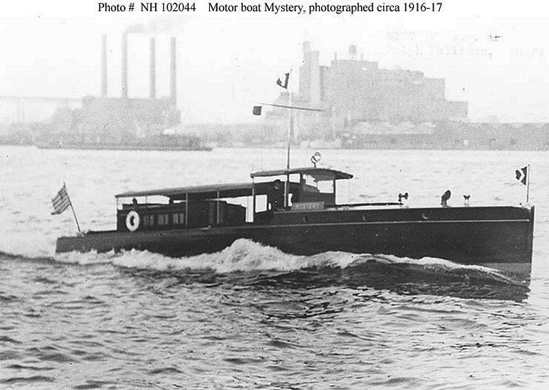 Motorboat Mystery, registered for potential World War I United States Navy service as USS Mystery (SP-16), but never taken into U.S. Navy service.